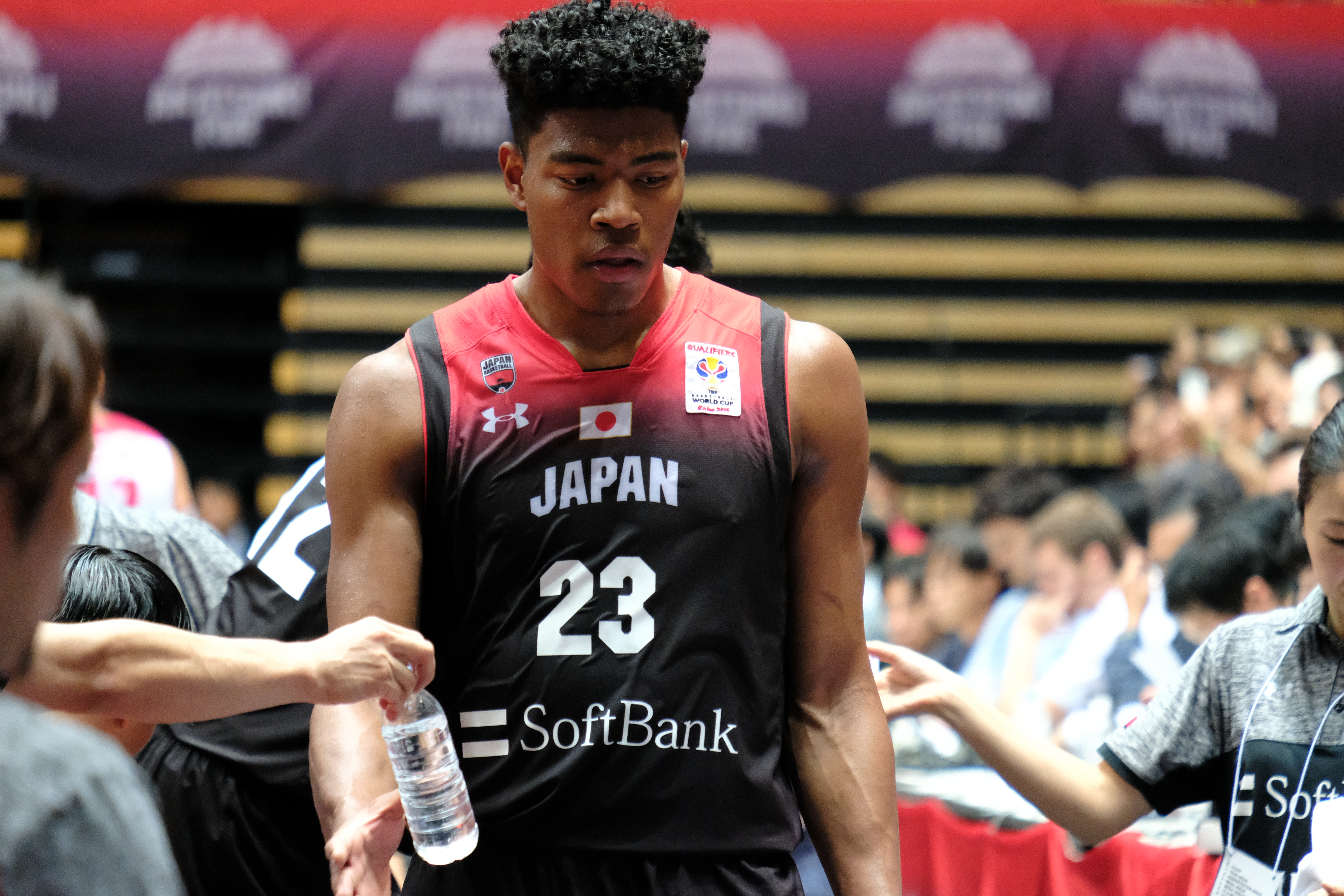 2019 FIBA Basketball World Cup qualification, Japan vs Iran